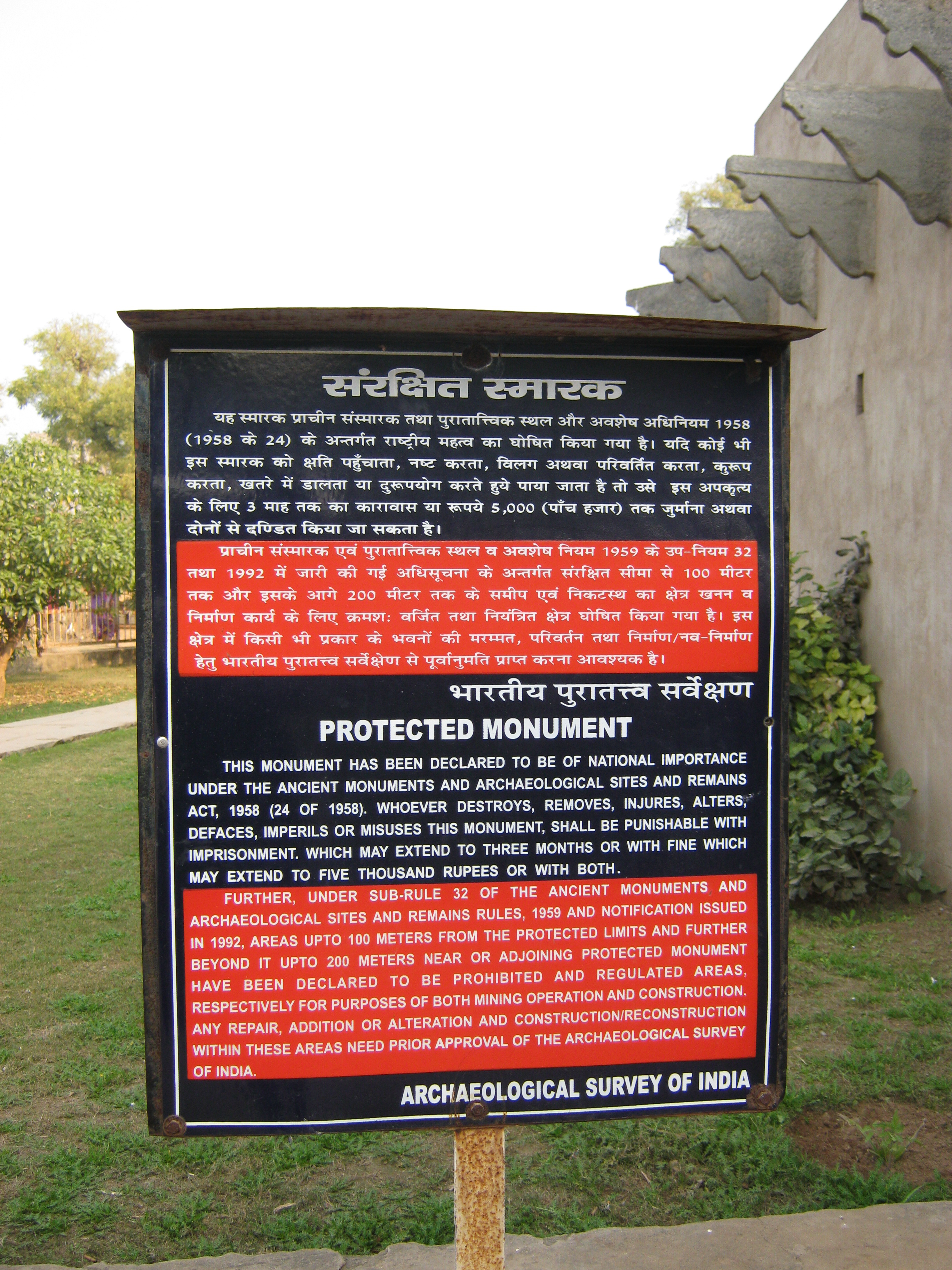 ASI protection board at Chand Baori